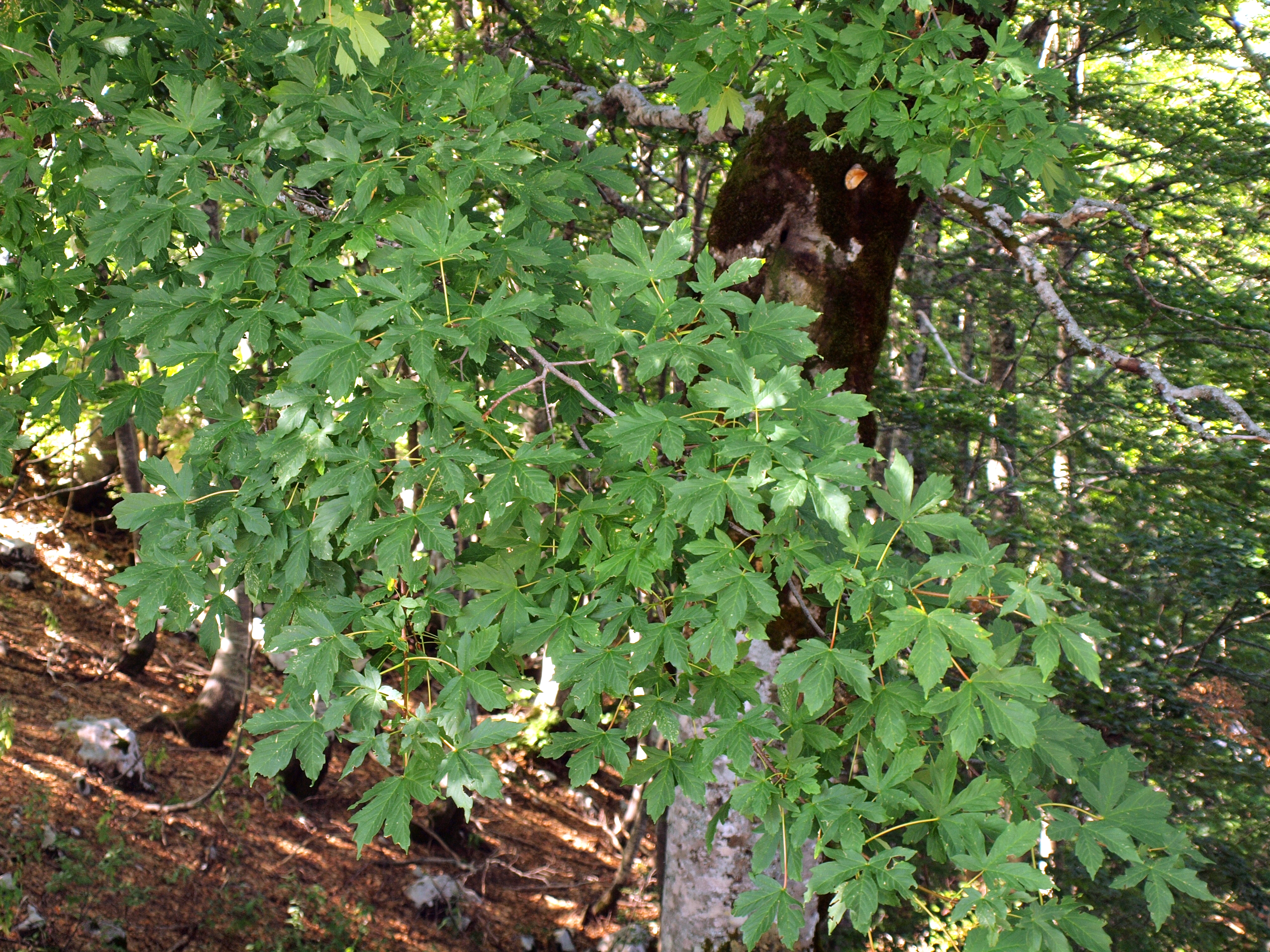 Acer heldreichii ssp visianii Pazua ridge Orjen